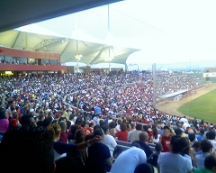 Cohen Stadium game vs. Shreveport. July 4th, 2007. Taken on RAZR Phone